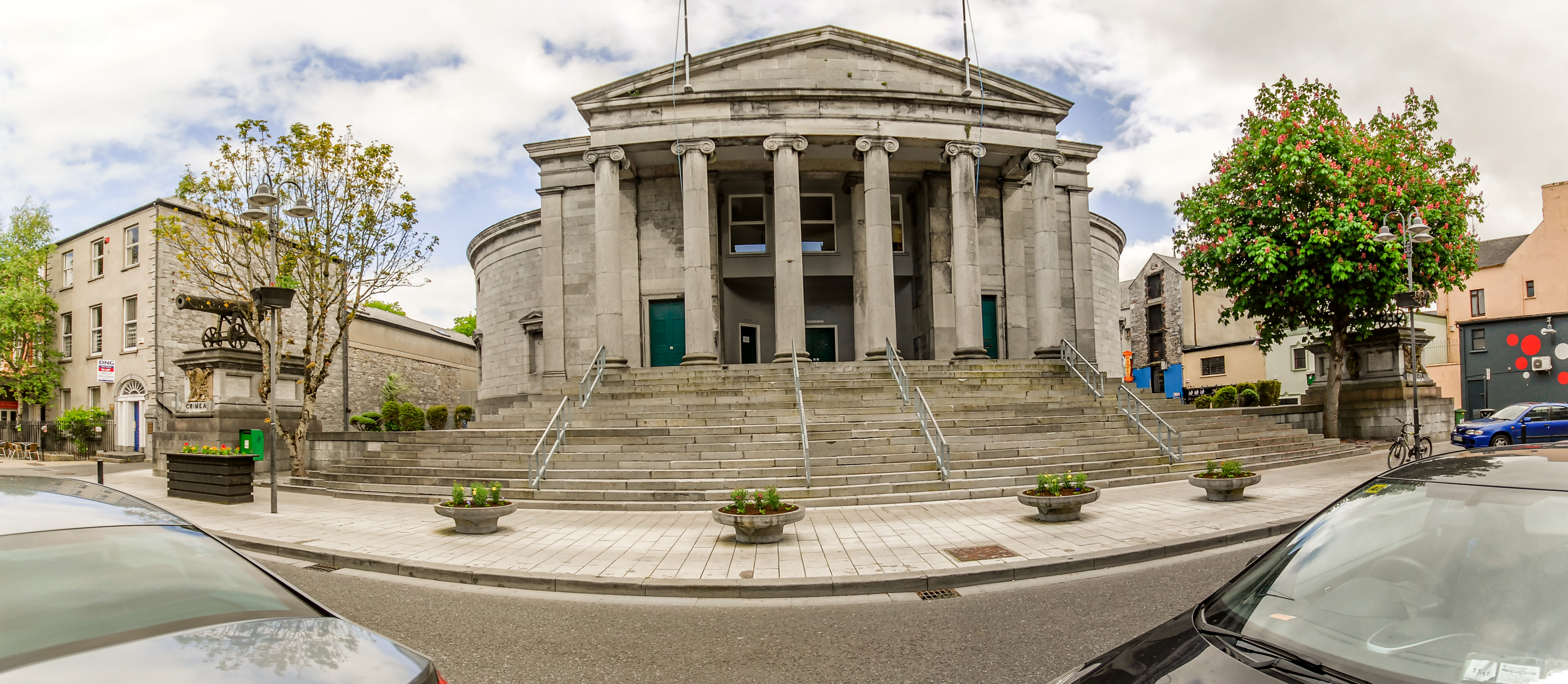 Tralee Courthouse was designed by Sir Richard Morrison and built in 1835.